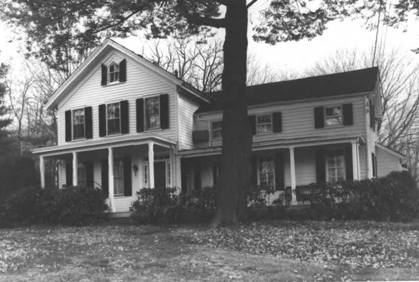 Garret Augustus Ackerman House, Saddle Brook, New Jersey. This house has apparently been demolished.